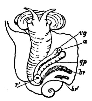 Female of Purpura lapillus (=Nucella lapillus) removed from its shell; the mantle-skirt cut along its left line of attachment and thrown over to the right side of the animal so as to expose the organs on its inner face. a, Anus. vg, Vagina. gp, Adrectal purpuriparous gland. r′, Aperture of the nephridium (kidney). br, Ctenidium (branchial plume). br′, Parabranchia (= the comb-like osphradium or olfactory organ).